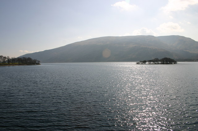 Eilean nan Deargannan From Rowardennan looking to Eilean nan Deargannan on Loch lomond